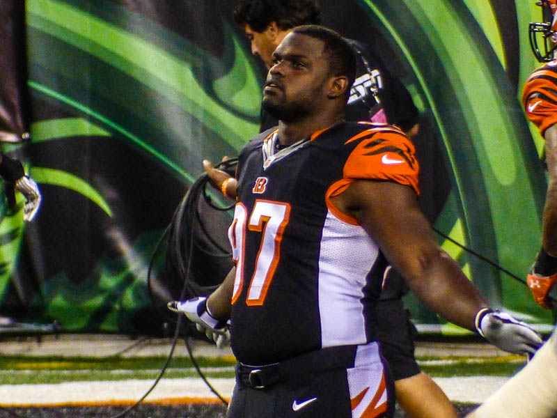 Warming up before Monday Night Football game vs the Pittsburgh Steelers, September 17, 2013